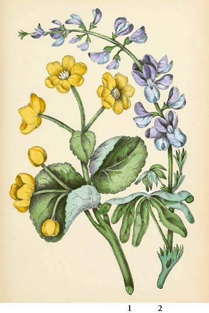 Title: Studies of Plant Life in Canada: Wild Flowers, Flowering Shrubs, and Grasses Author: Traill, Catharine Parr (1802-1899) Illustrator: Chamberlin, Agnes Dunbar [née Moodie] (1833-1913) Editor: Chamberlin, Agnes Dunbar [née Moodie] (1833-1913) Date of first publication: 1906 (first publication of this "new and revised edition": original edition published in 1885) Edition used as base for this ebook: Toronto: William Briggs, 1906 Date first posted: 15 June 2009 Date last updated: 15 June 2009 Project Gutenberg Canada ebook #332